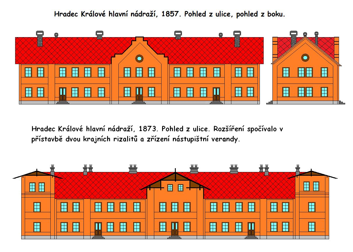 The nonexistent railway station in Hradec Králové. Built in 1857, 1871. Was found at the same place, what the present station Hradec Králové hlavní nádraží.